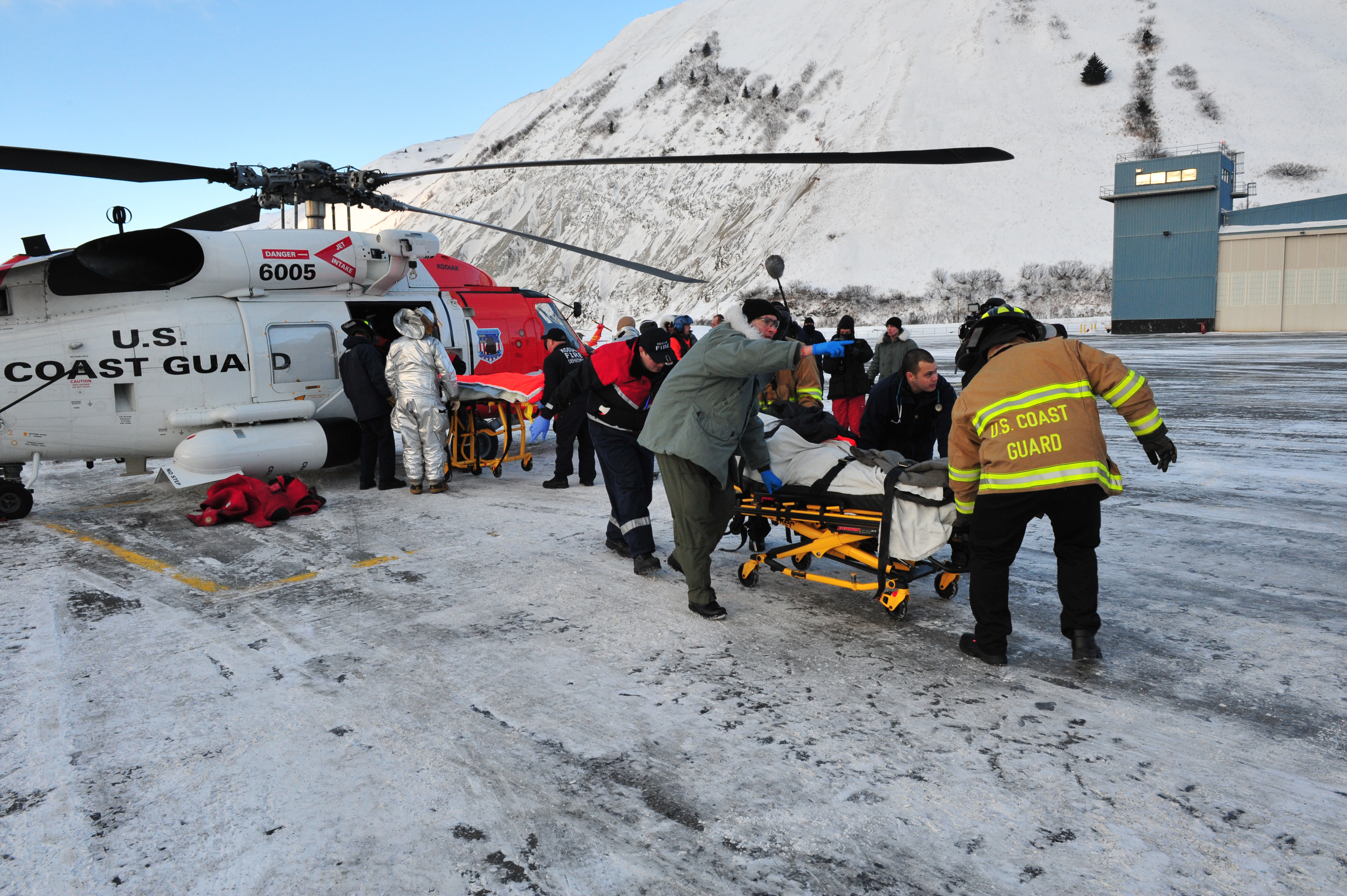 "Kodiak-based Coast Guard and emergency medical personnel transfer a fishing vessel Kimberly survivor from a rescue helicopter to an ambulance Jan. 25, 2012. The Kimberly went aground in Portage Bay with four people aboard."